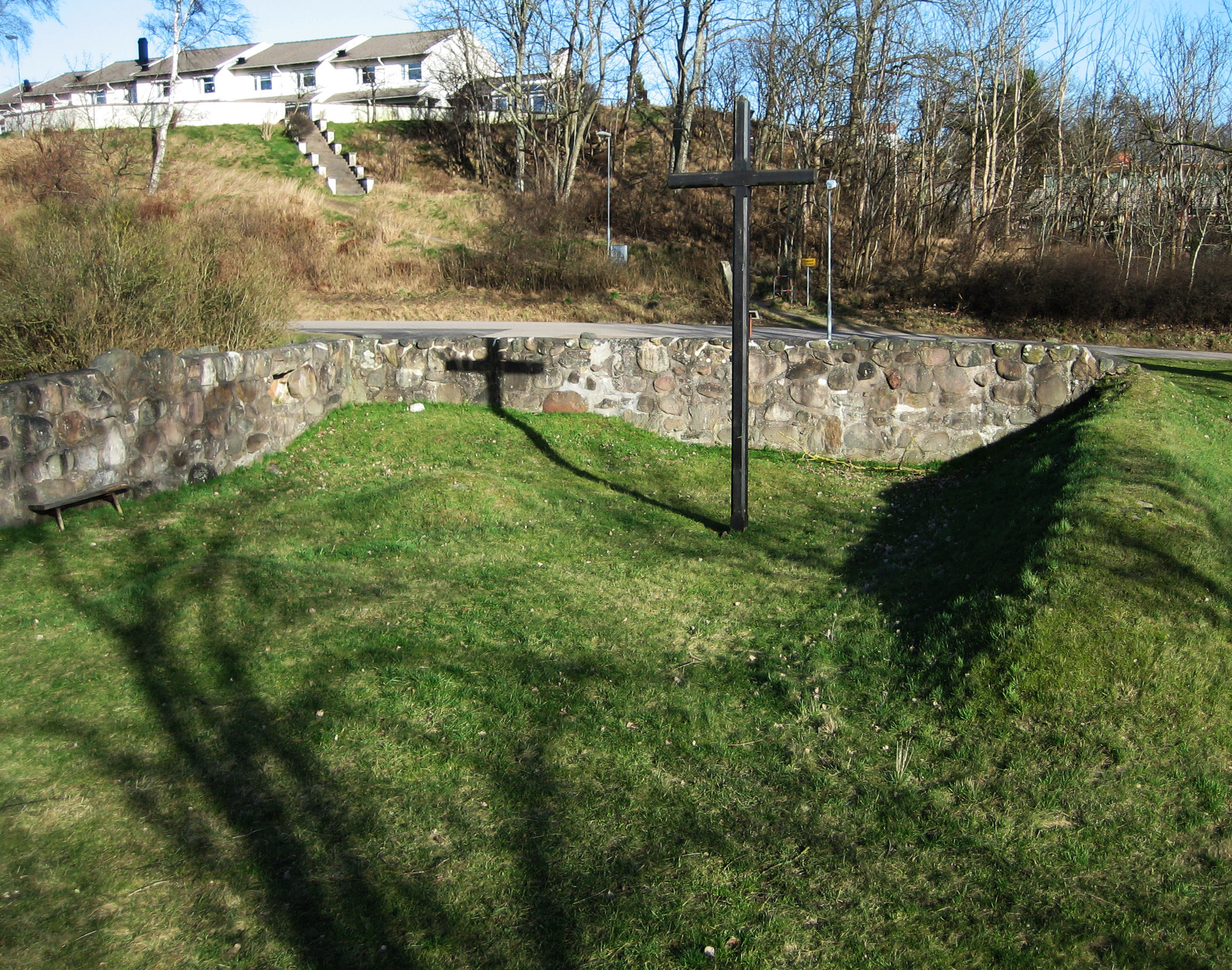 The medieval church ruins in Luntertun, Ängelholm, Sweden. Photo taken 080402 by the uploader.